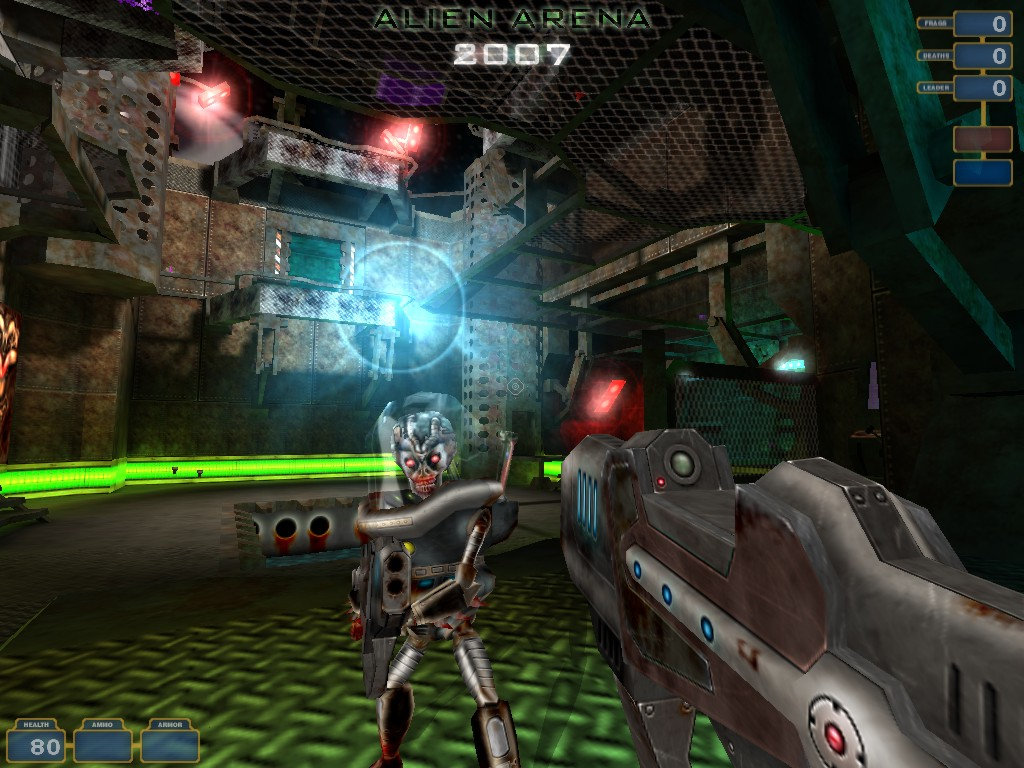 Screenshot from CodeRED: Alien Arena 2007 - Dm-deimos.